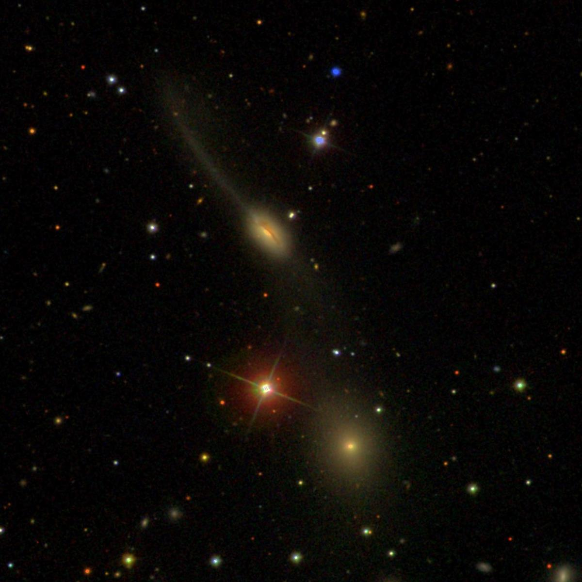 Angle of view: 6' × 6' (0.3" per pixel), north is up.